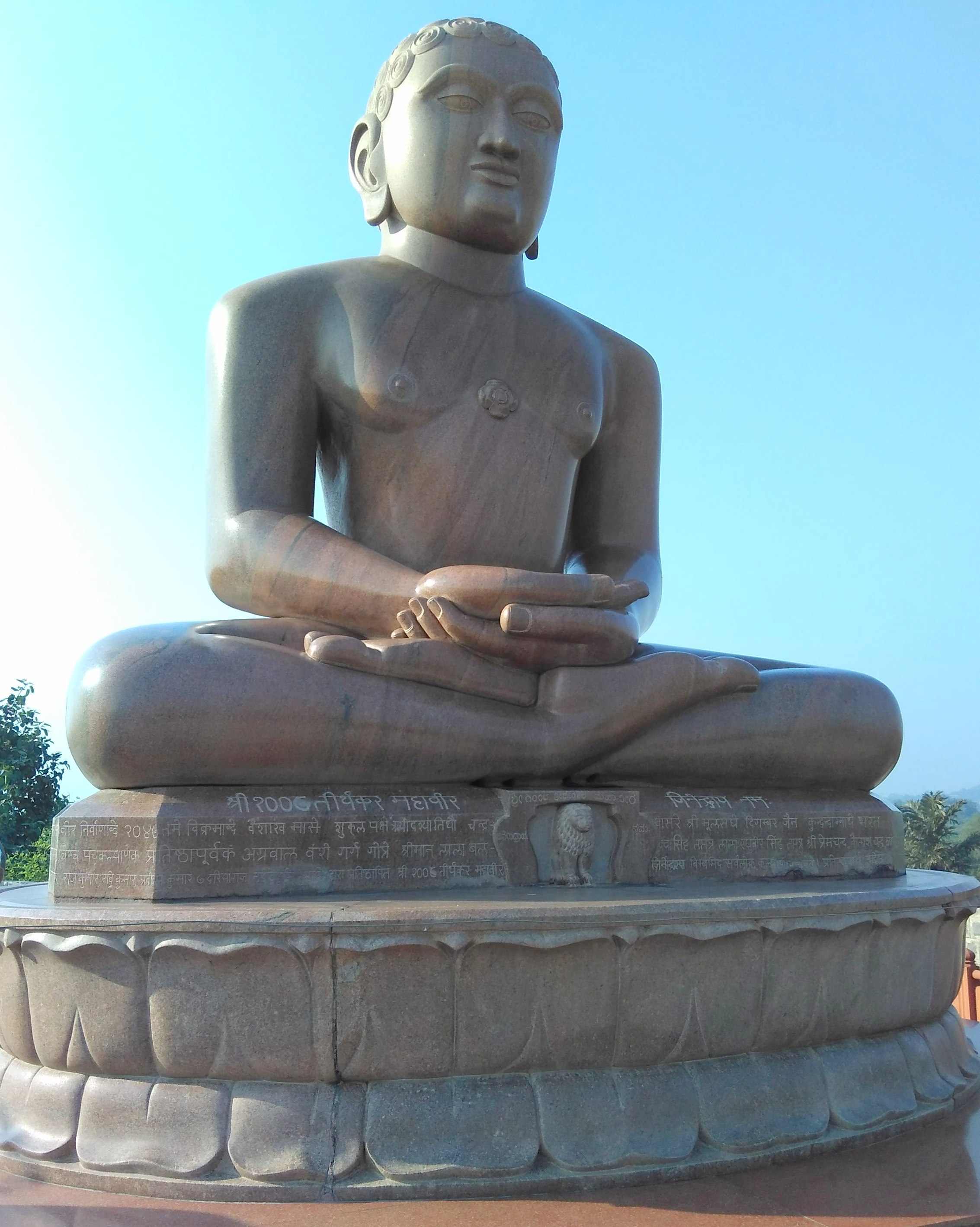 Bhagwan Mahavir idol at Ahinsa Sthal